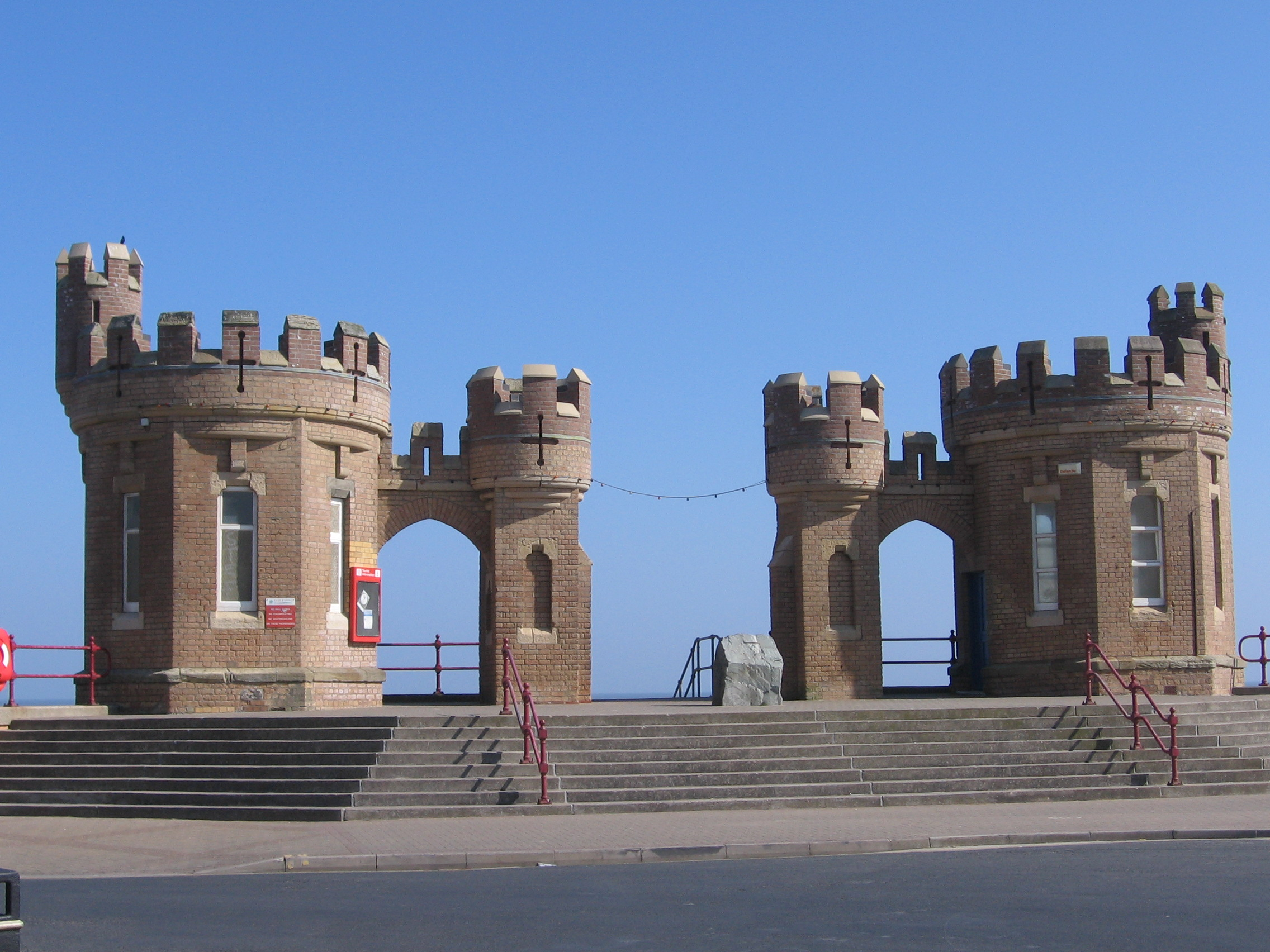 Pier Towers, Withernsea, East Riding of Yorkshire, England. Photo taken by me 07 April 2007